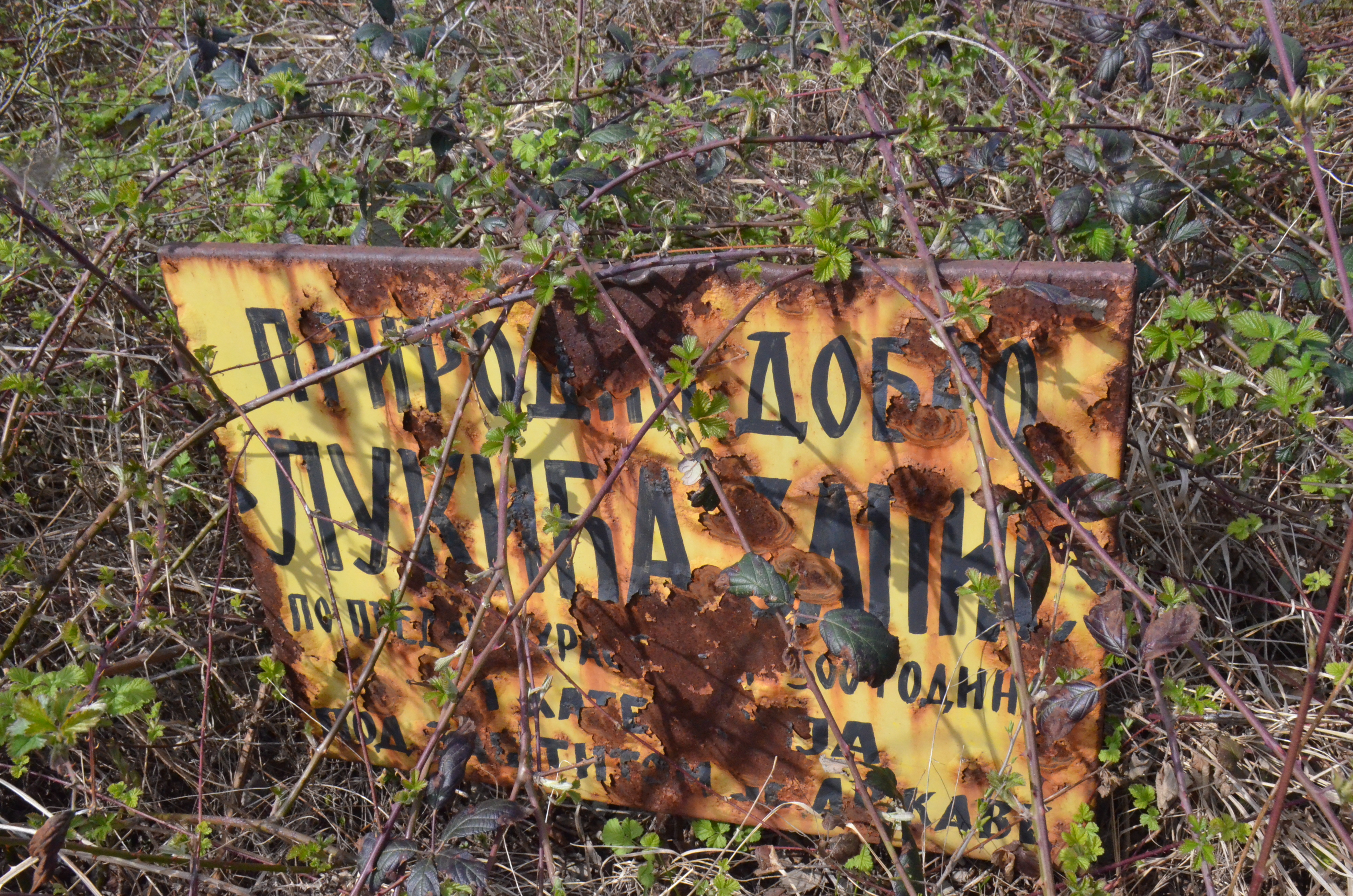 Ово је фотографија заштићеног природног добра у Србији под шифром: СП139 This is a a photo of a natural area in Serbia with ID: СП139 Zapis - Sacred Tree, Natural Monument, Оак - Lukića hrast, in village Ranilović, municipality Aranđelovac, Serbia